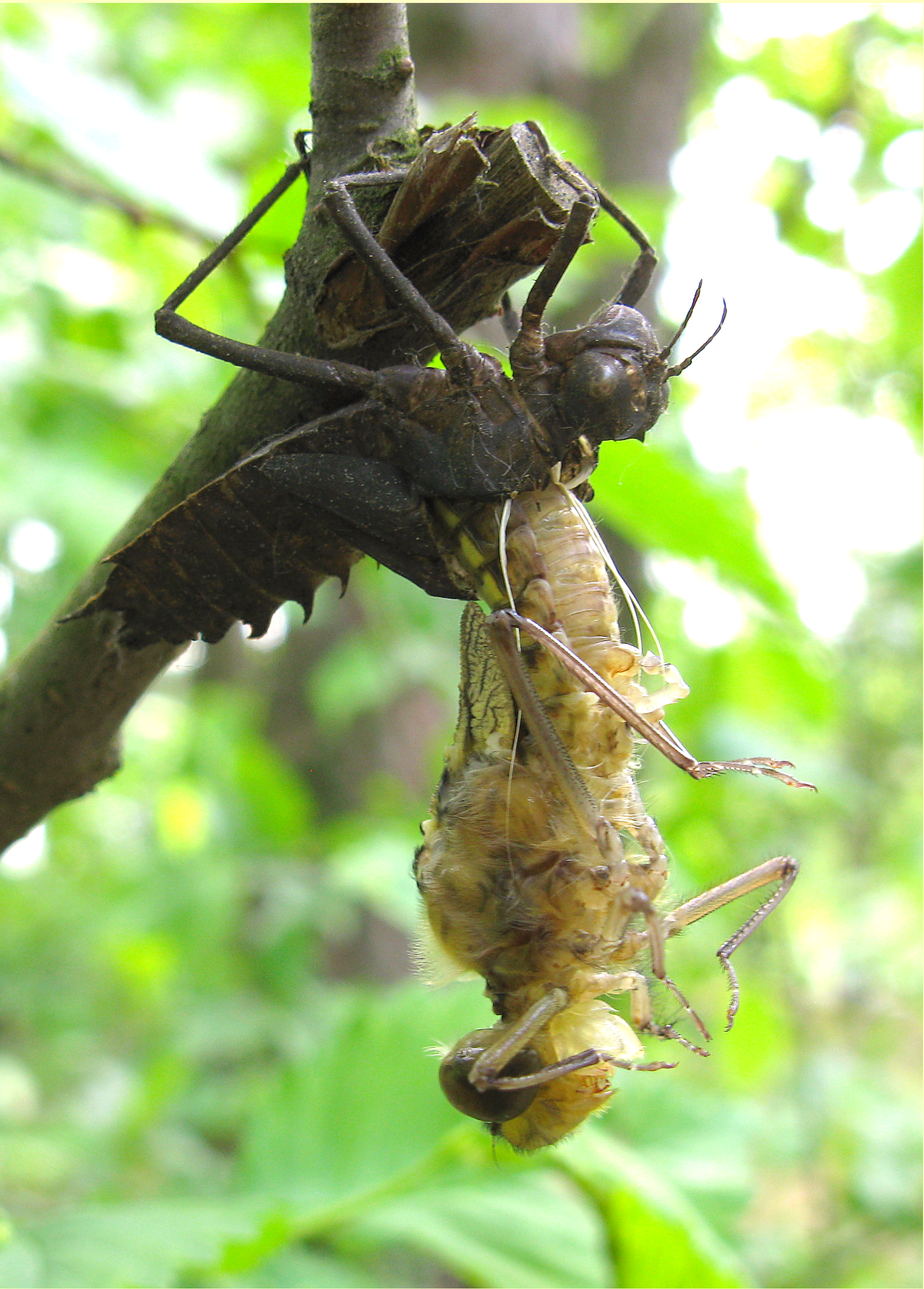 Moulting of Odonata